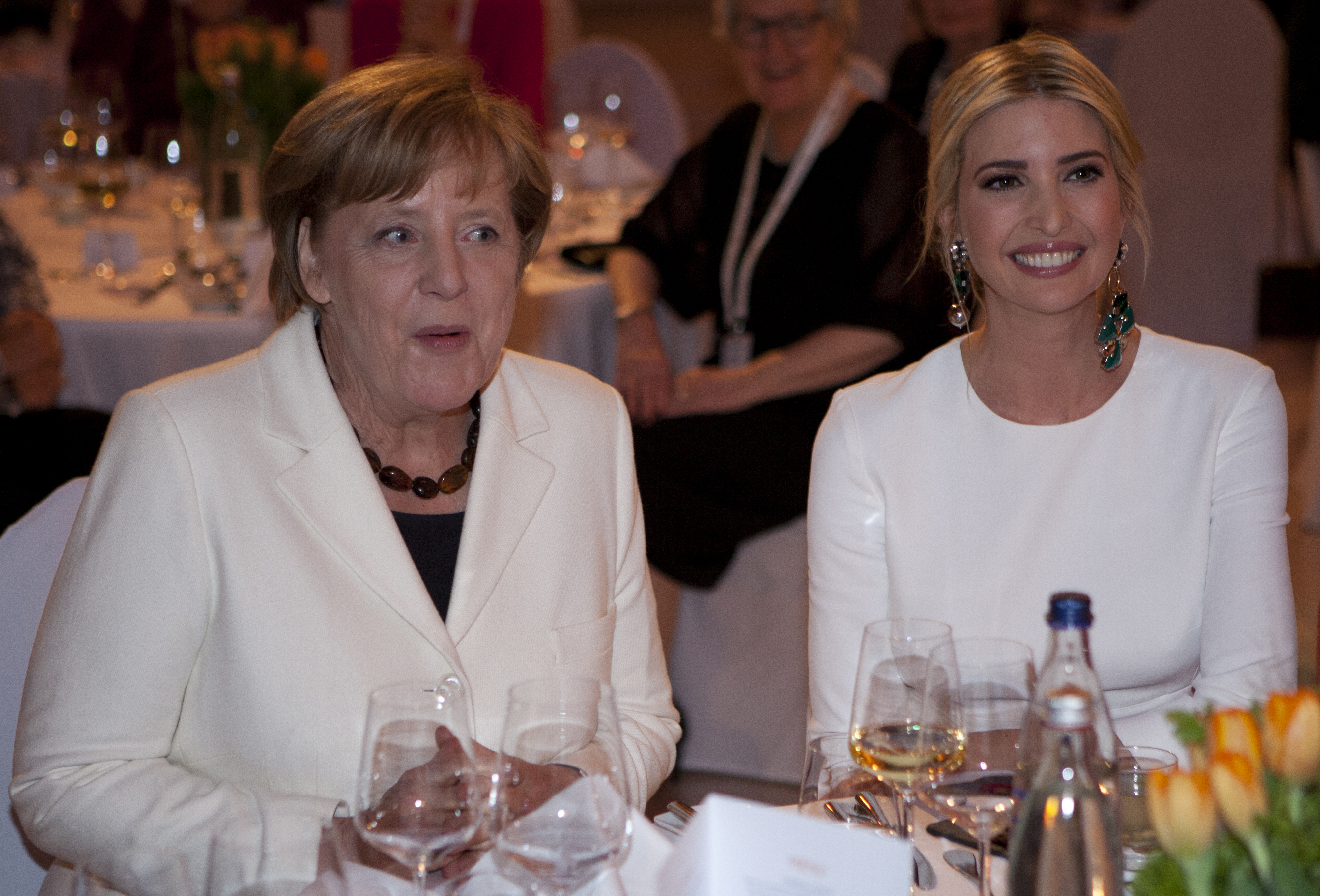 Angela Merkel and Ivanka Trump at the W20 Conference Gala Dinner in Berlin, April 2017